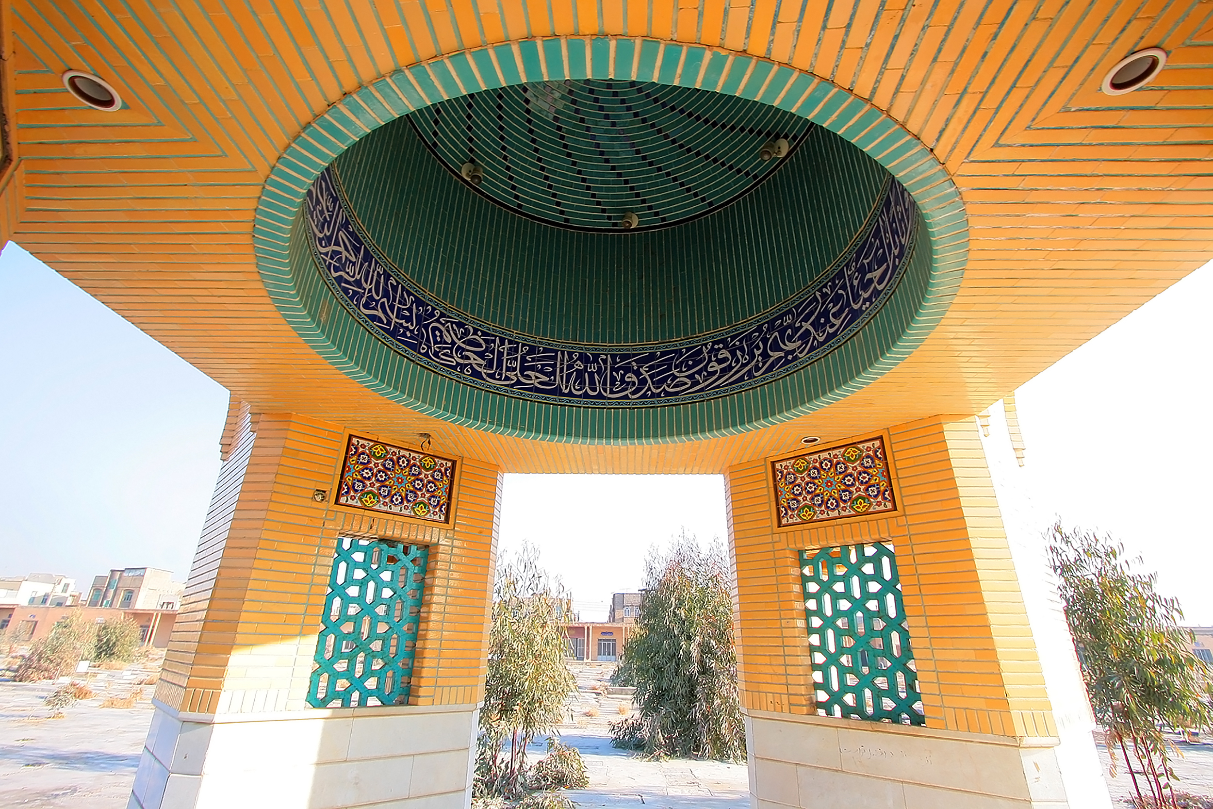 Qom also spelled as Ghom, is the eighth largest city in Iran. It lies 125 kilometres (78 mi) by road southwest of Tehran and is the capital of Qom Province. At the 2011 census its population was 1,074,036 (957,496 at the 2006 census, in 241,827 families), comprising 545,704 men and 528,332 women. It is situated on the banks of the Qom River. Qom is considered holy by Shiʿa Islam, as it is the site of the shrine of Fatema Mæ'sume, sister of Imam `Ali ibn Musa Rida (Persian Imam Reza, 789–816 AD). The city is the largest center for Shiʿa scholarship in the world, and is a significant destination of pilgrimage. Qom is famous for a brittle toffee called “Sohan” (Persian:سوهان), considered a souvenir of the city and sold by 2,000 to 2,500 “Sohan” shops.